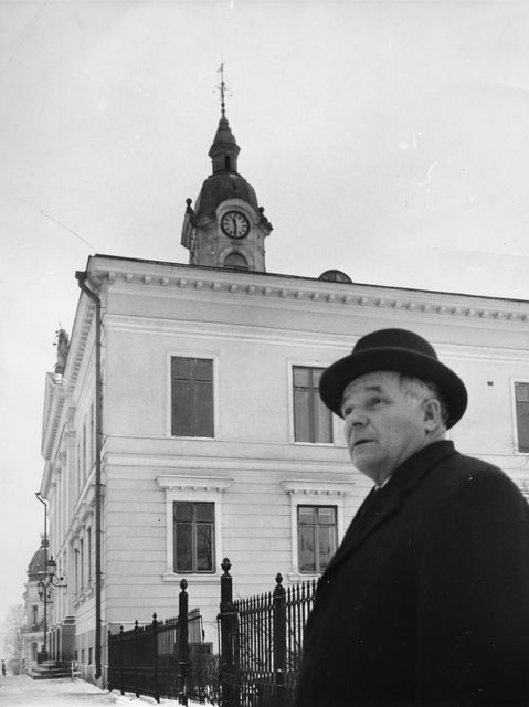 Photograph of the mayor of Pori, Oiva Kaivola (1910–1971), in front of the town hall.